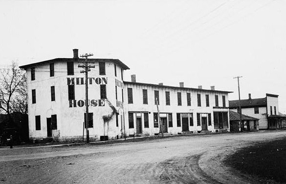 Milton House — Fort Atkinson Street, Milton (Rock County, Wisconsin) Image courtesy of Historic American Buildings Survey (cropped).